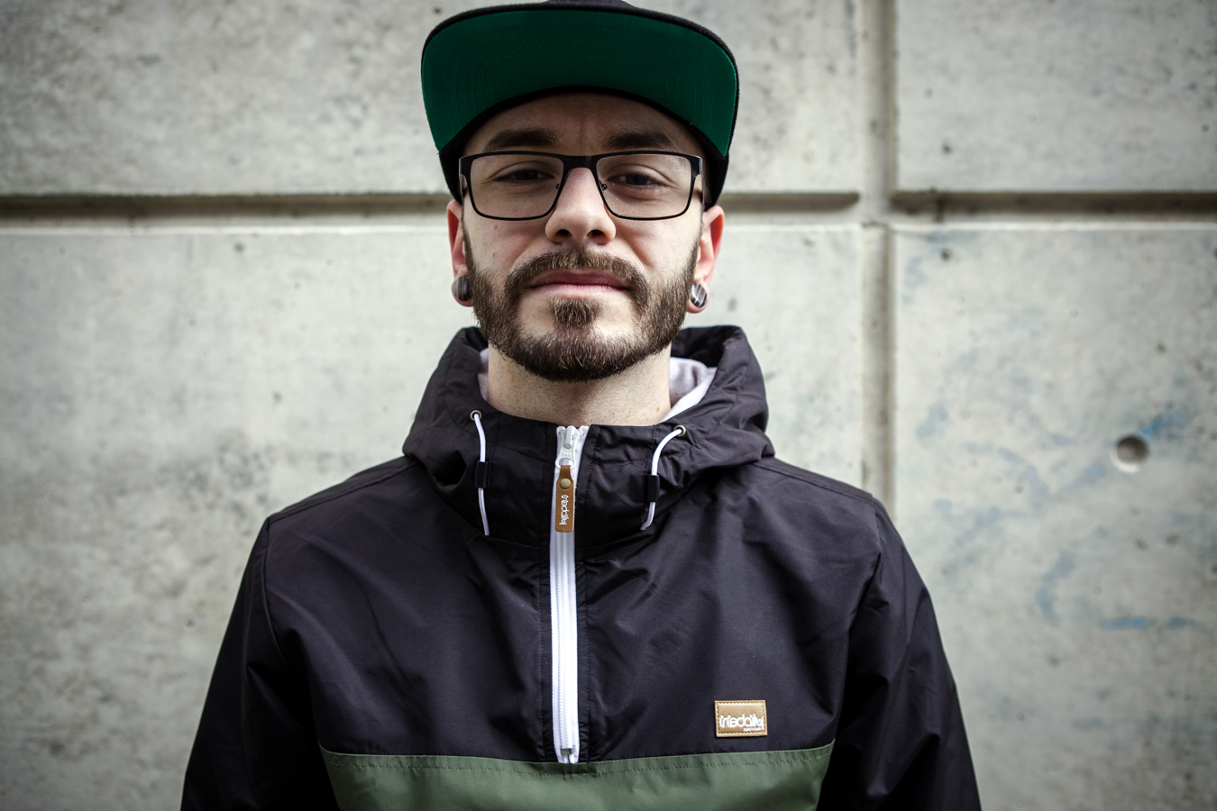 Pressefoto des Rappers Hartmann